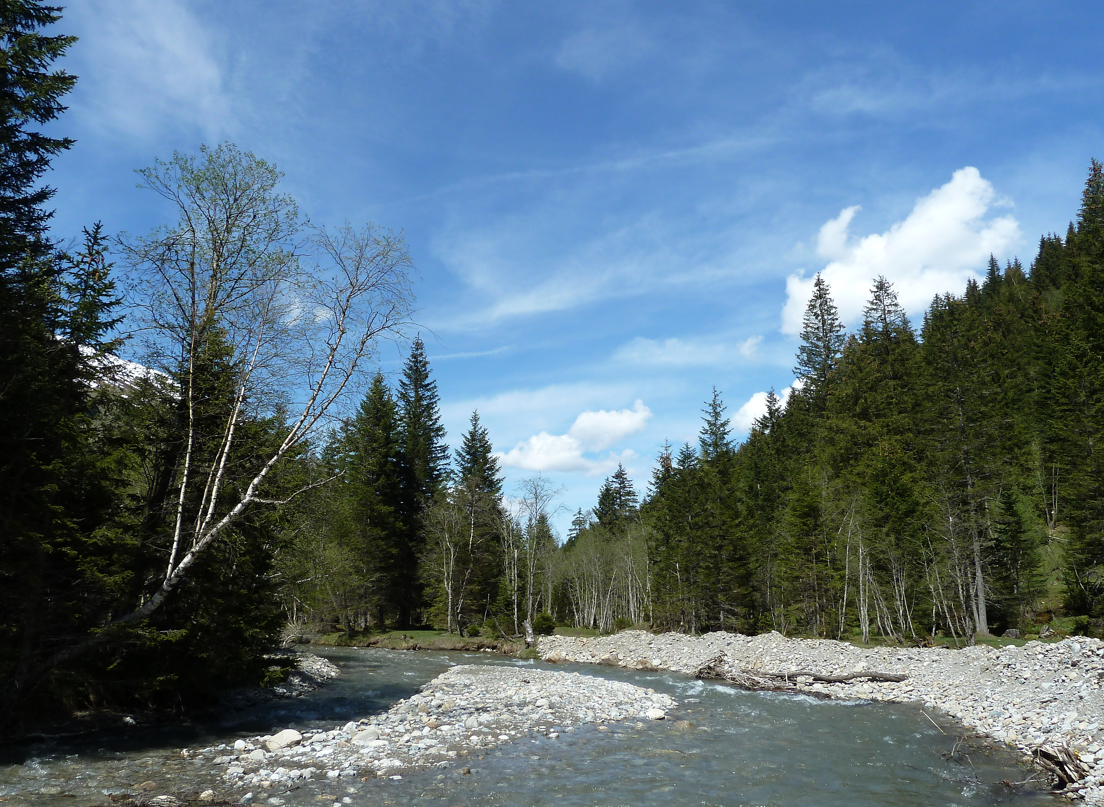 Upper course of Fuscher Ache, Ferleiten valley, Fusch an der Großglocknerstraße, Salzburg (state), Austria